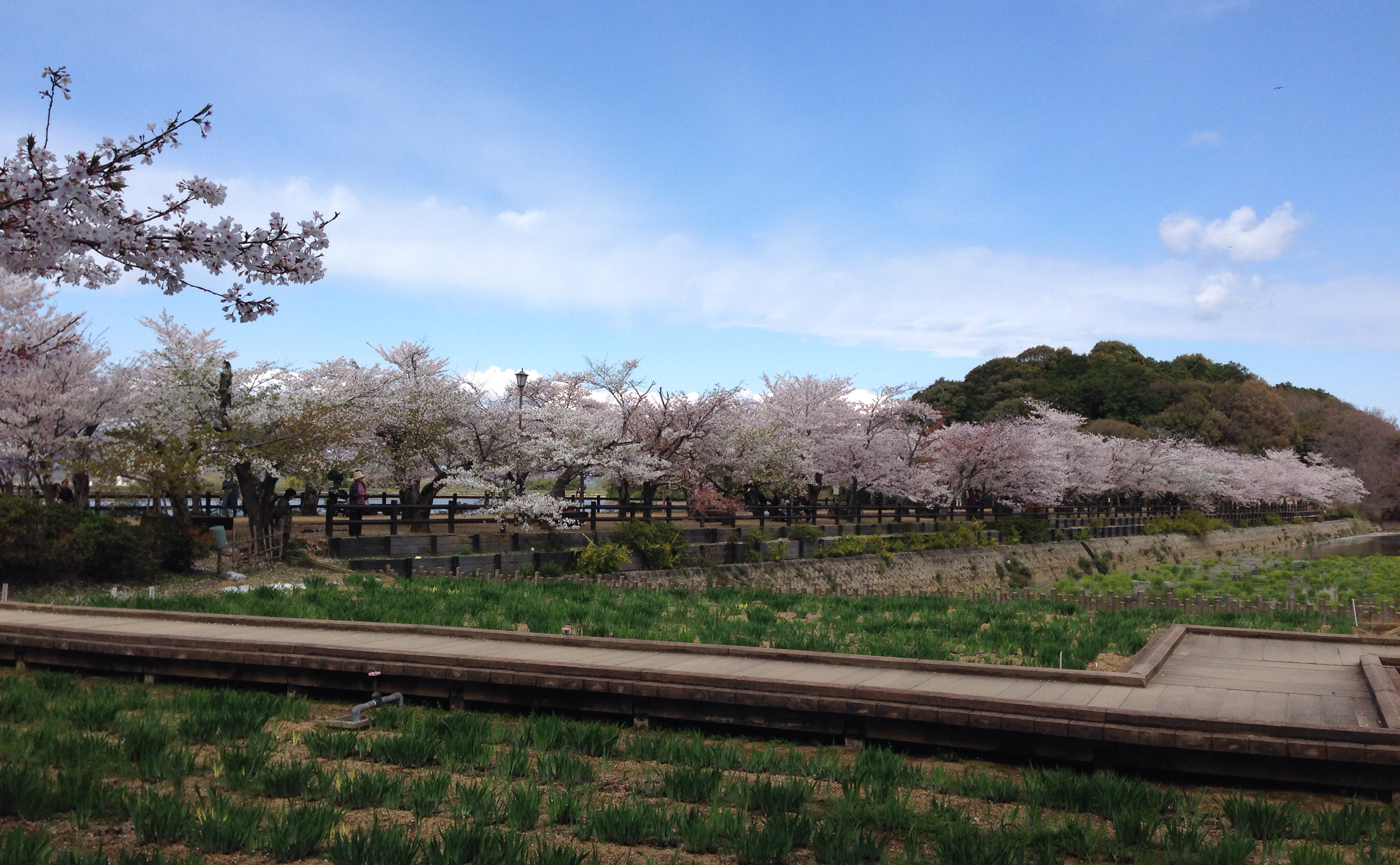 Row of cherry blossom trees of the middle embankment of Kikaku park. 6 April 2014.